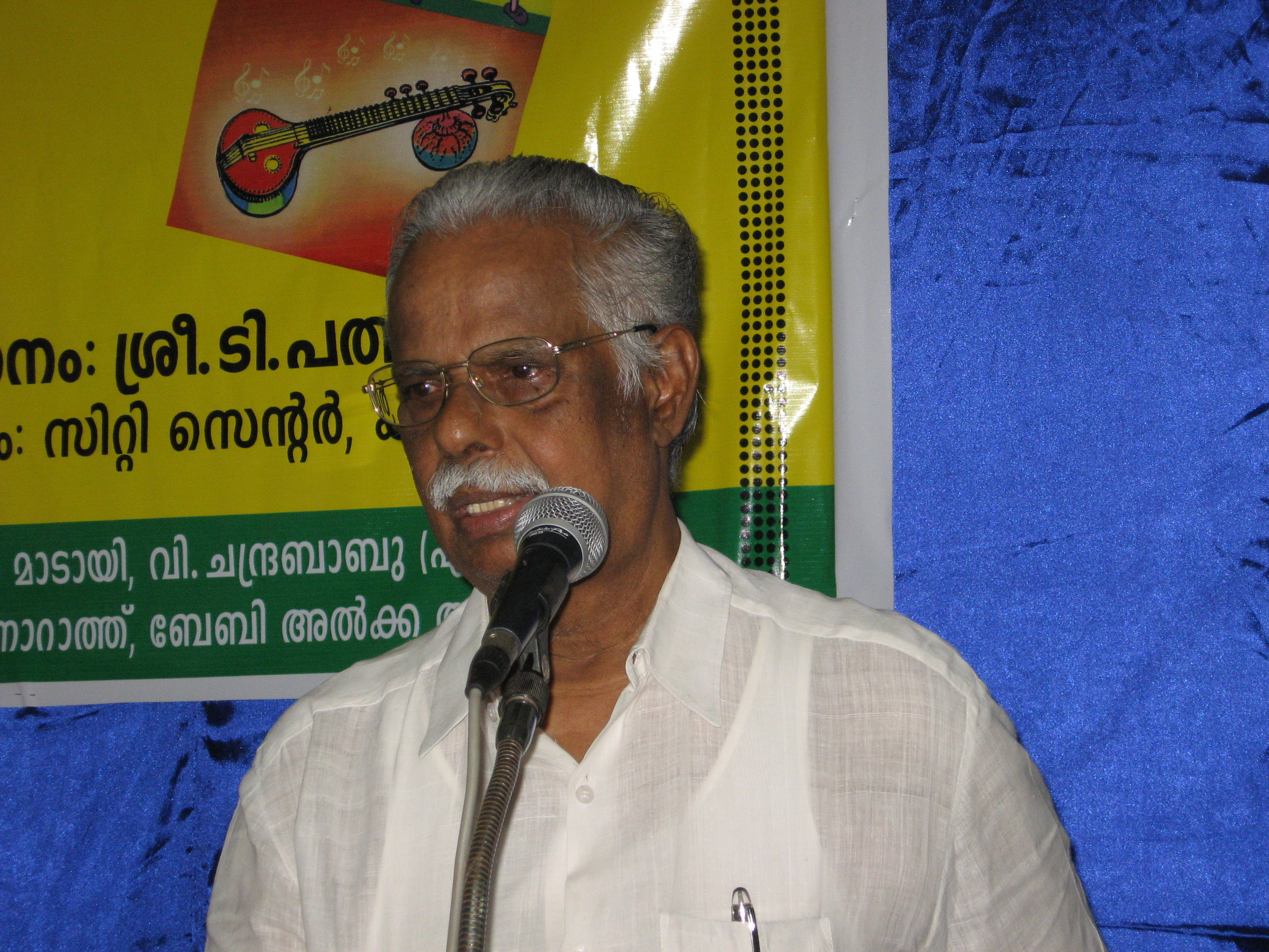 malayalam short story writer T.Padmanabhan